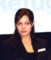 "June 20, 2003, Washington, DC: Deputy Secretary Armitage and Goodwill Ambassador Angelina Jolie participate in the commemoration of World Refugee Day at the National Geographic’s Grosvenor Auditorium. State Department Photo by Michael Gross."